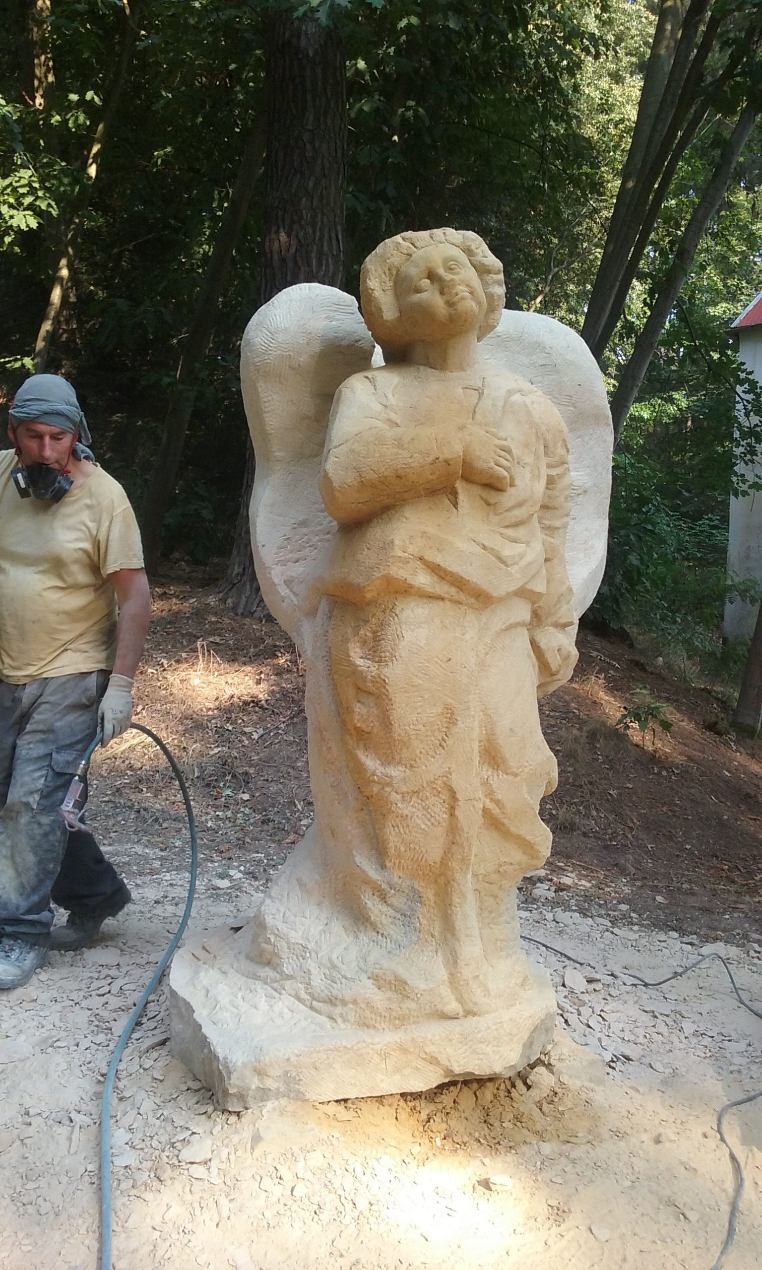 Gustav Mayer: ?. Sandstone. 2015. Picture taken in Nečtiny, Plzeň-North District, Czech Republic.